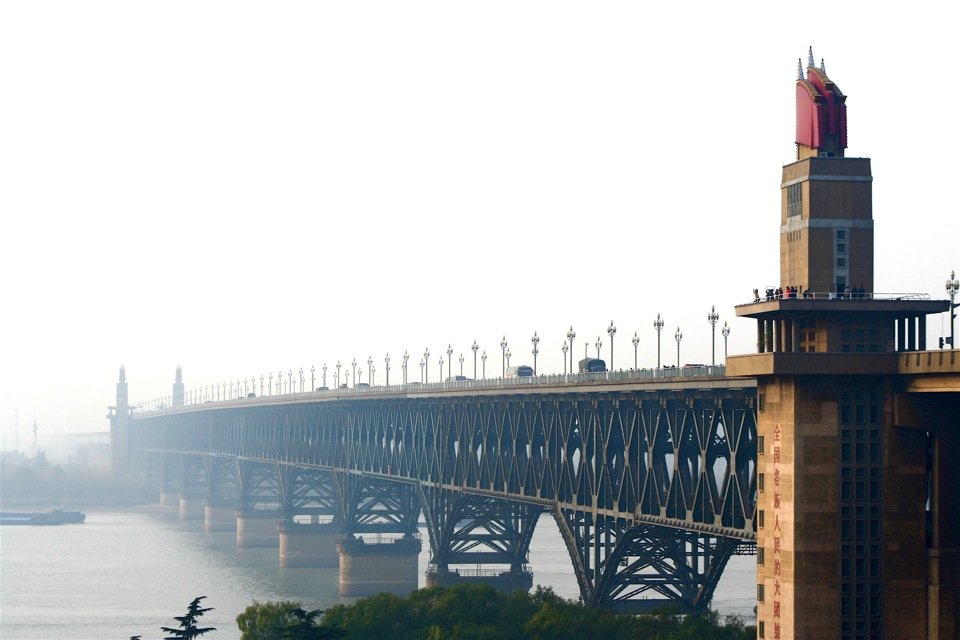 Yangtze River Bridge in Nanjing 中文（中国大陆）: 南京长江大桥